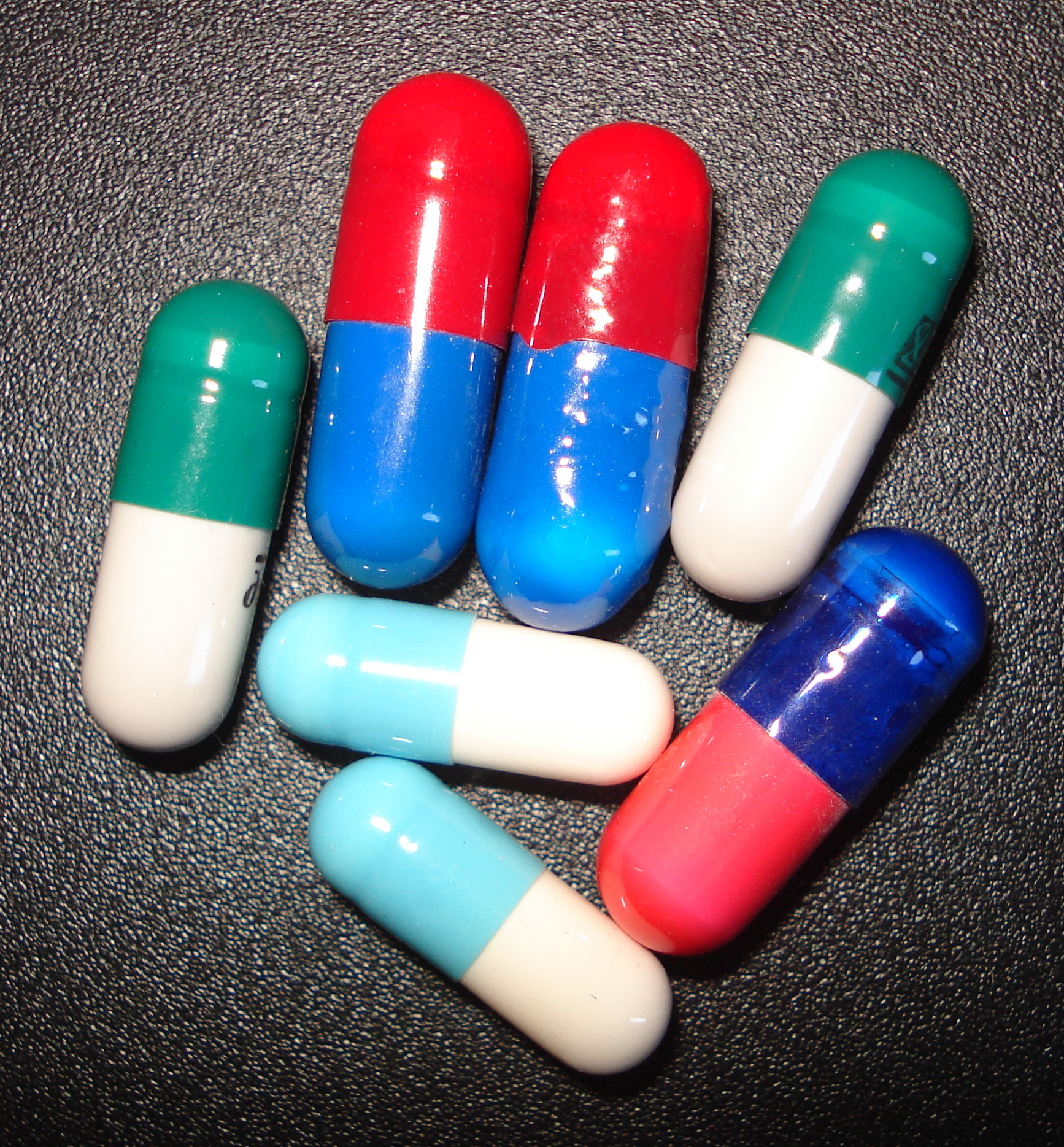 Pills.